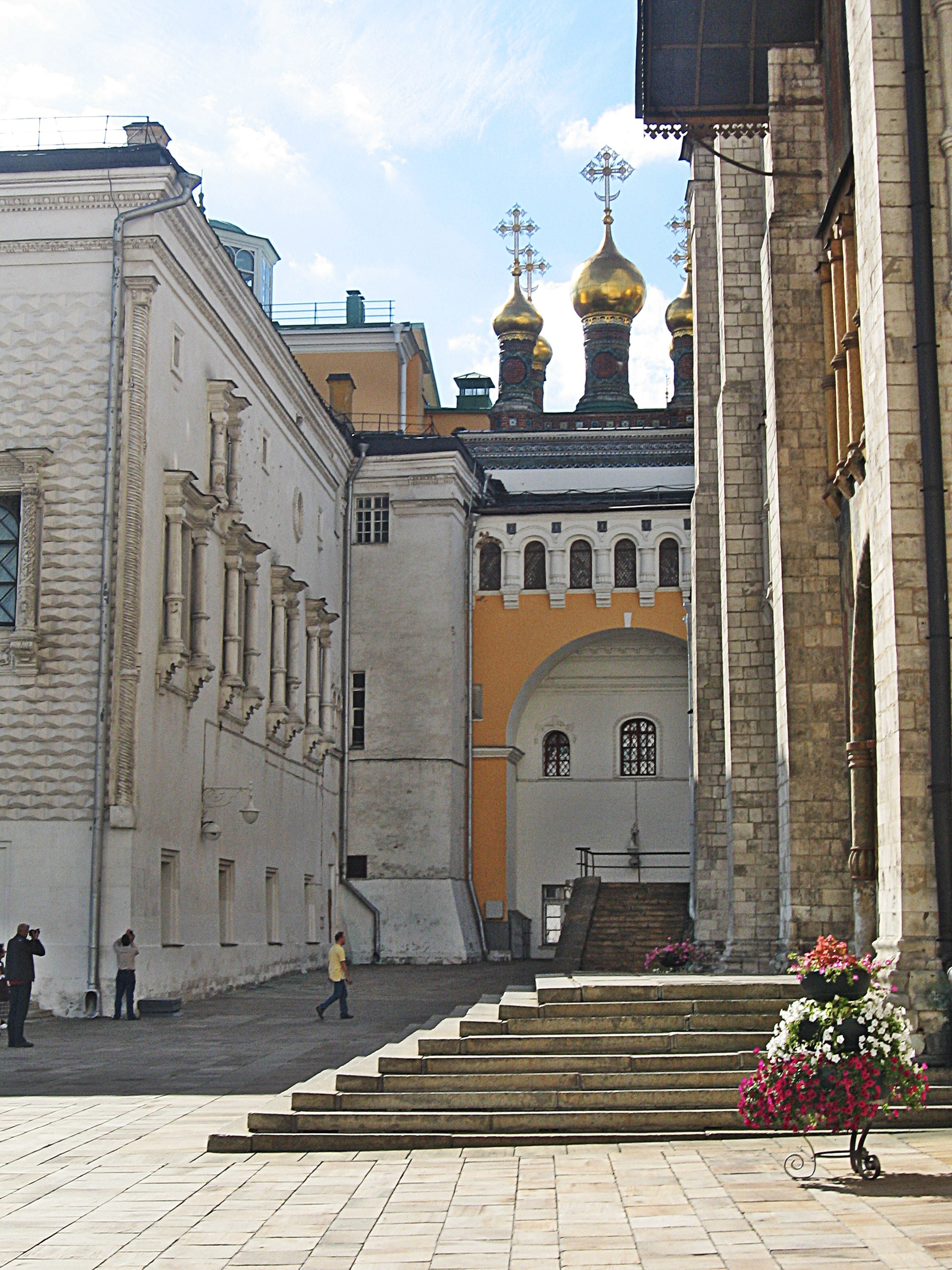 Moscow Kremlin. Westward view towards the former Terem Palace. Left: Hall of Facets, right: Cathedral of the Dormition